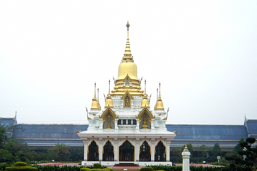 Wat Thaikusinara in Kushinara Location: Kushinara India.